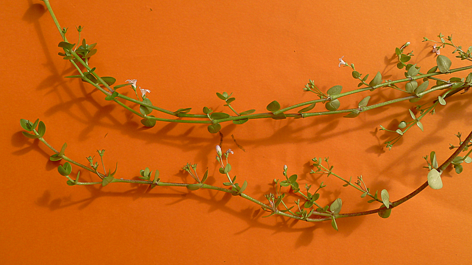 Oldenlandia salzmannii (DC.) Benth. & Hook.f. ex B.D.Jacks, Rubiaceae, Atlantic forest,... Prostrate herb. Aquatic environment.